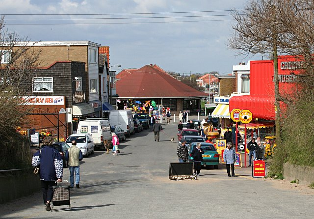 The Pullover at Chapel St Leonards, leading behind to the beach. The Pullover (sometimes Pull Over) was a slight dip in the line of protective sand dunes used as a route to cart goods to the village from boats at the sea edge. The name refers to this action, where it was common to have available an extra horse to aid the task of pulling over the sand dune. This metalled road for emergency access to the beach was, in the early 20th century, a sandy track with two refreshment shacks. The widened area beyond, which today contains novelty alcohol and food outlets, and amusement arcades, had an open aspect with two or three domestic buildings and farmland. The Pullover has given its name to the road back into what is now the built up village. Original description: Chapel St Leonards